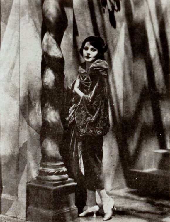 Still from the American crime drama film Voices of the City (1921) (also known as The Night Rose) with Leatrice Joy (supposedly wearing a wrap of peacock blue trimmed with beads), on page 50 of the June 25, 1921 Exhibitors Herald.